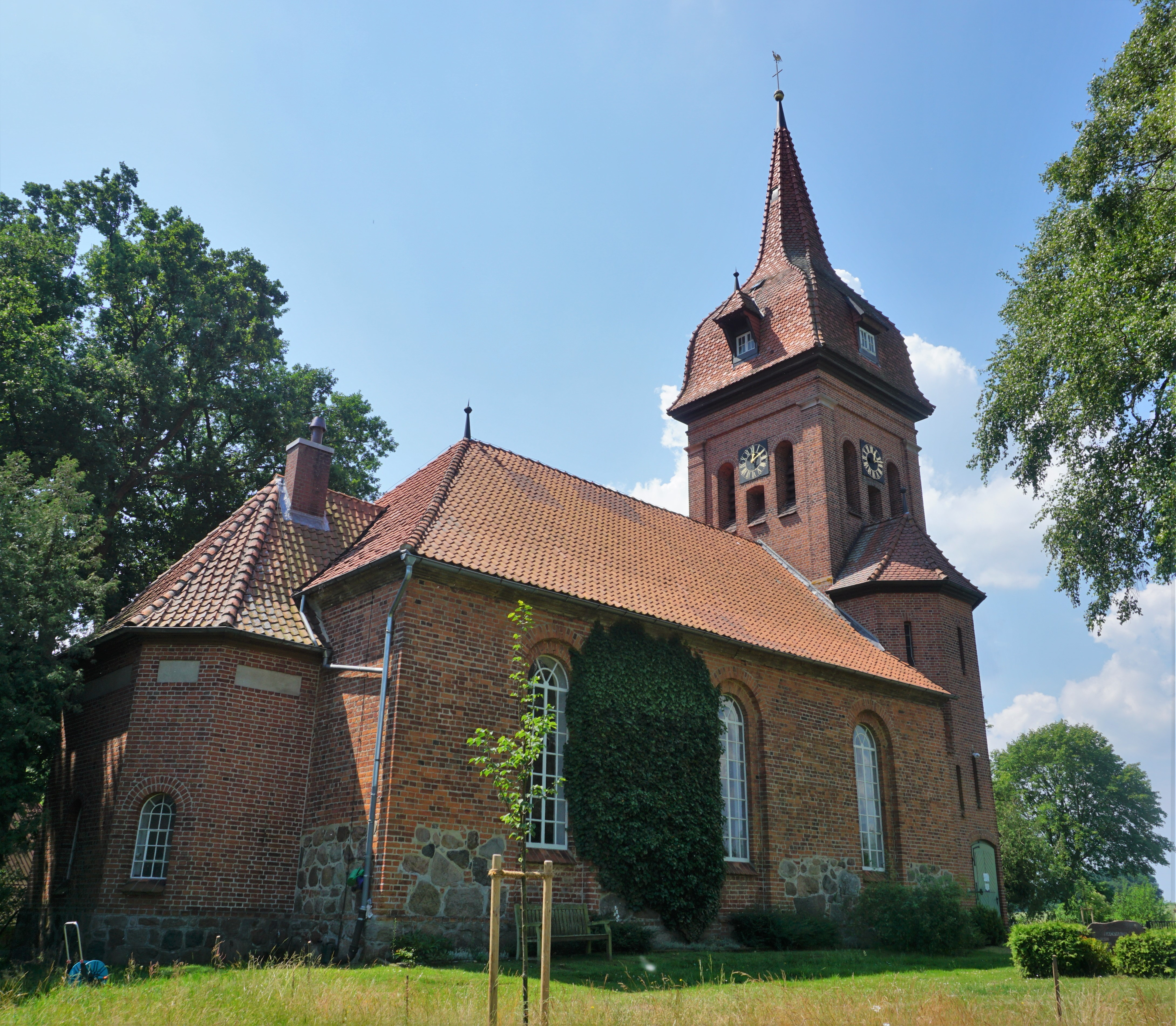 Church of Natendorf in the district of Uelzen. View from northeast.